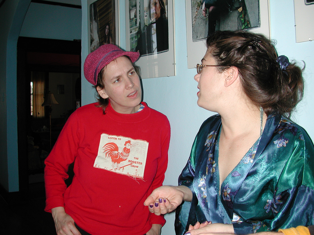 Helen Hill (left) and friend in New Orleans, February 2006